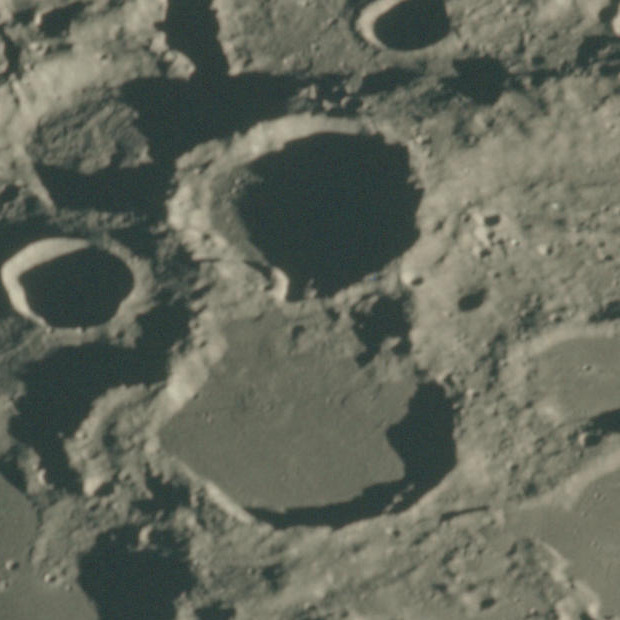 Chamberlin (crater) (flat-floored crater below center) and Moulton (crater) (mostly in shadow above center), Mare Australe, on the moon. South at top.